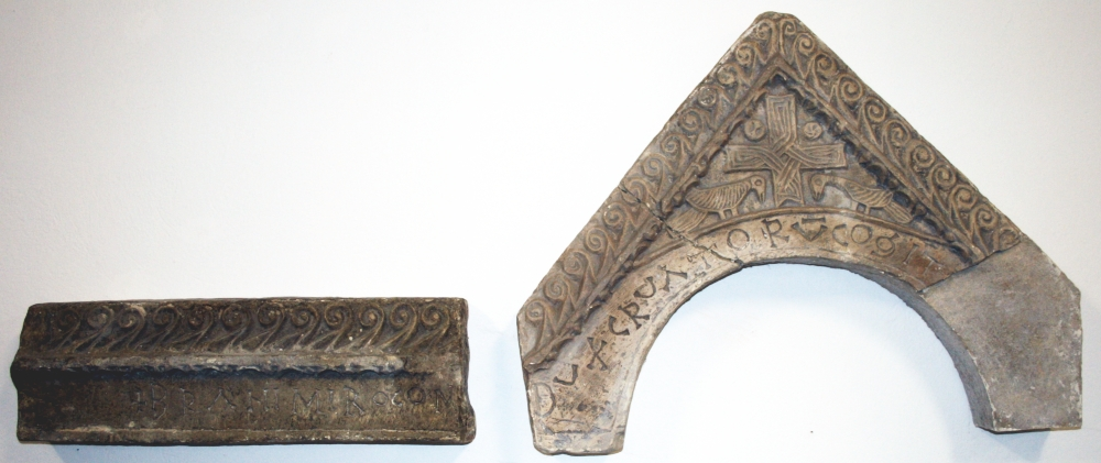 Beam and gable with inscription of Prince Branimir, 879-1982, Šopot near Benkovac, plaster cast of Gliptoteka, HZ-125